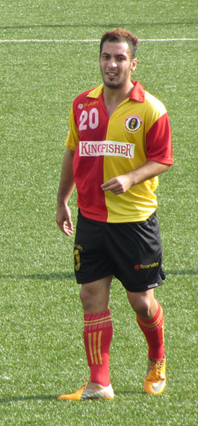 Tolgay Ozbey